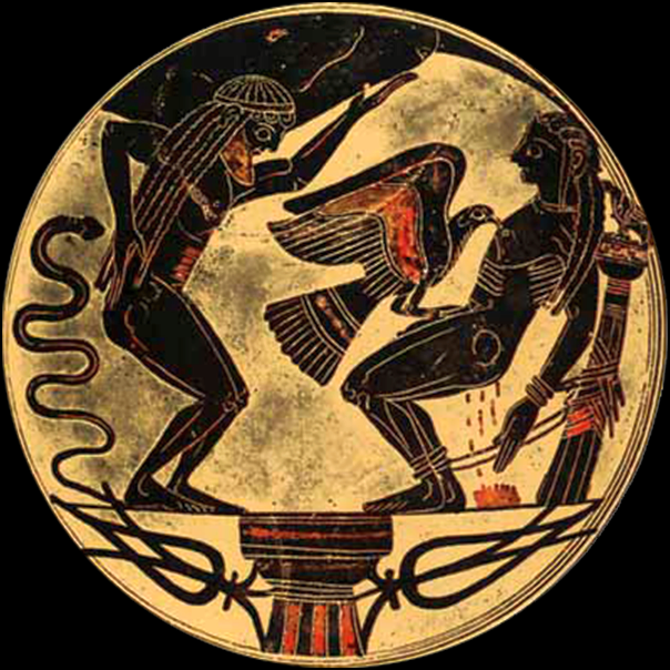 Atlas, Typhoëus, Prometheus The three titans are shown upon a laconic bowl (~550 BC) while they are being punished for their insurgency against the tyrant Jupiter: Prometheus is tied to a column representing the Caucasus. Atlas acts as the column at the opposite side of the hellenic world. The forced apart couple of erotic acrobats are oppressed into face-to-face-opposition to each other. Typhoëus is represented by the column propping up the rotating disc-shaped pottery-wheel upon which the titans - put asunder by the centrifugal forces - are trying to delicately (equi)poise each other while being contorted into a precarious 'kneeling' posture which is part of their penalty and handicap ... (text from source)